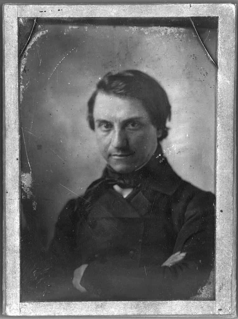 Daguerreotype shows French politician and historian, Louis Blanc, who was a member of the French government during the II French Republic of 1848. Taken between 1850-1860.